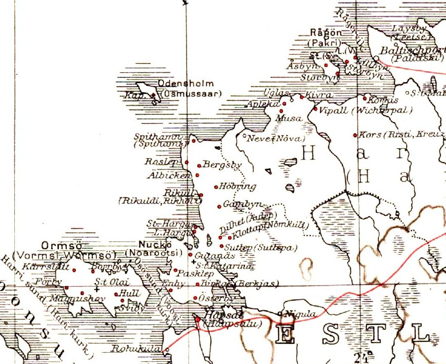 Map of Estonia, indicating in red villages traditionally dominated by Swedish-speaking population ("svenskbygder").